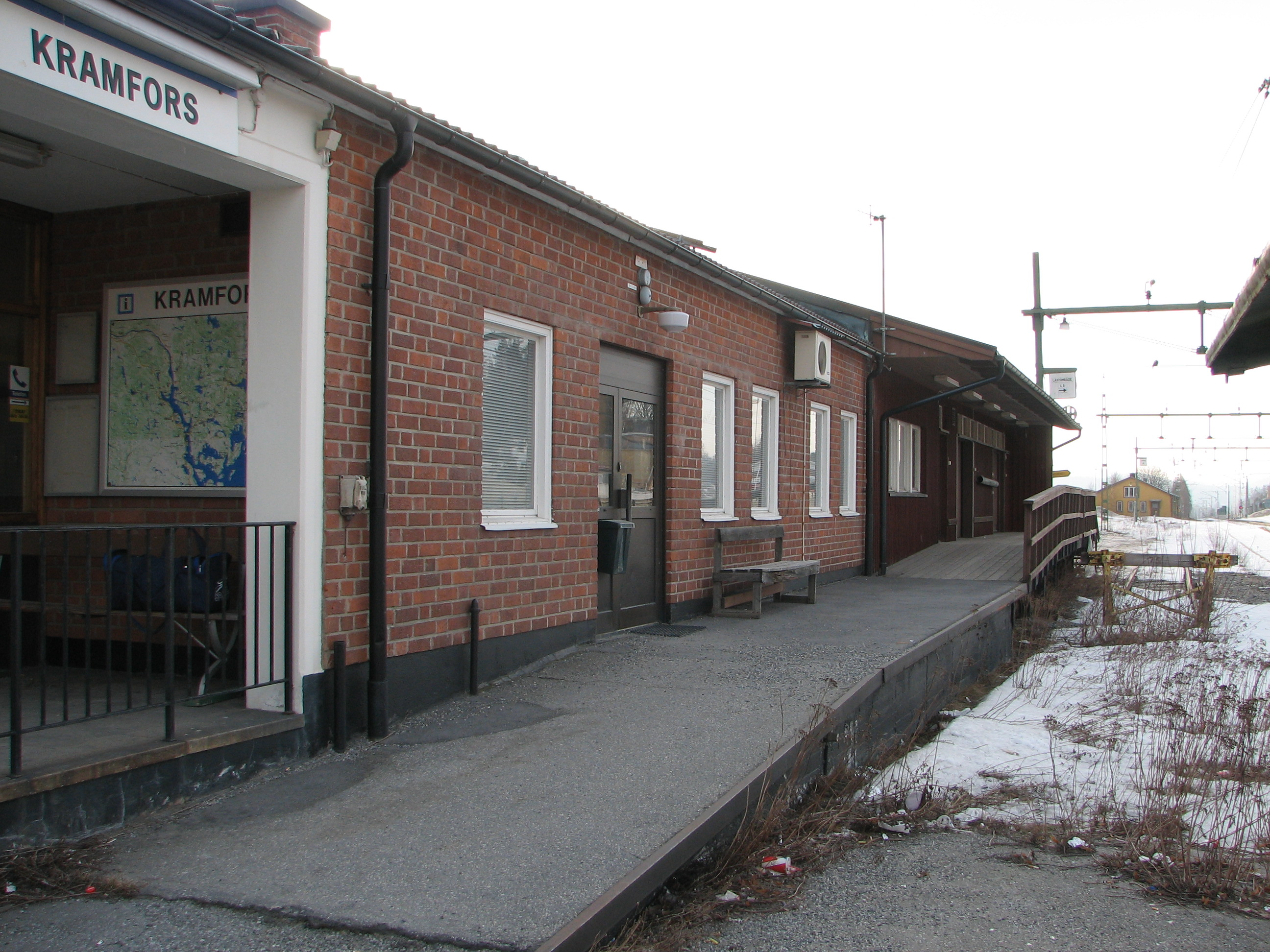 Kramfors old railway station 1967-2009